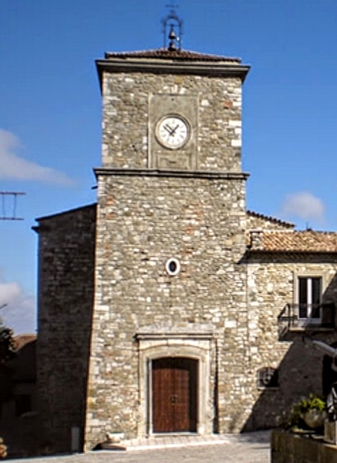 The Cathedral of Trevico, Italy